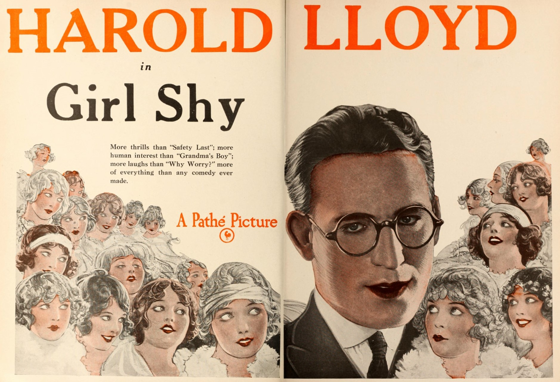 Advertisement for Girl Shy, Exhibitor's Trade Review